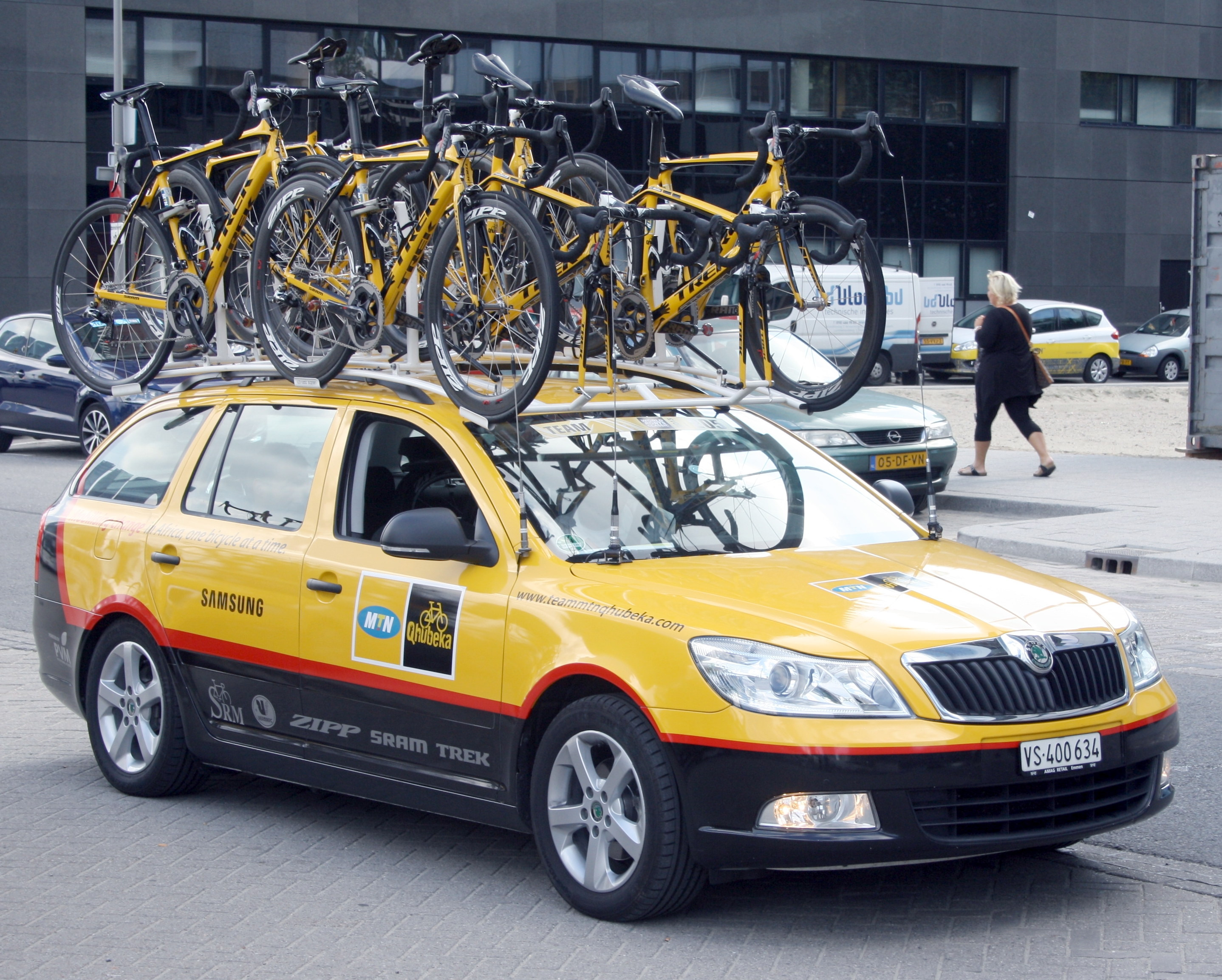 MTN Qhubeka team car at the World Ports Classic 2013